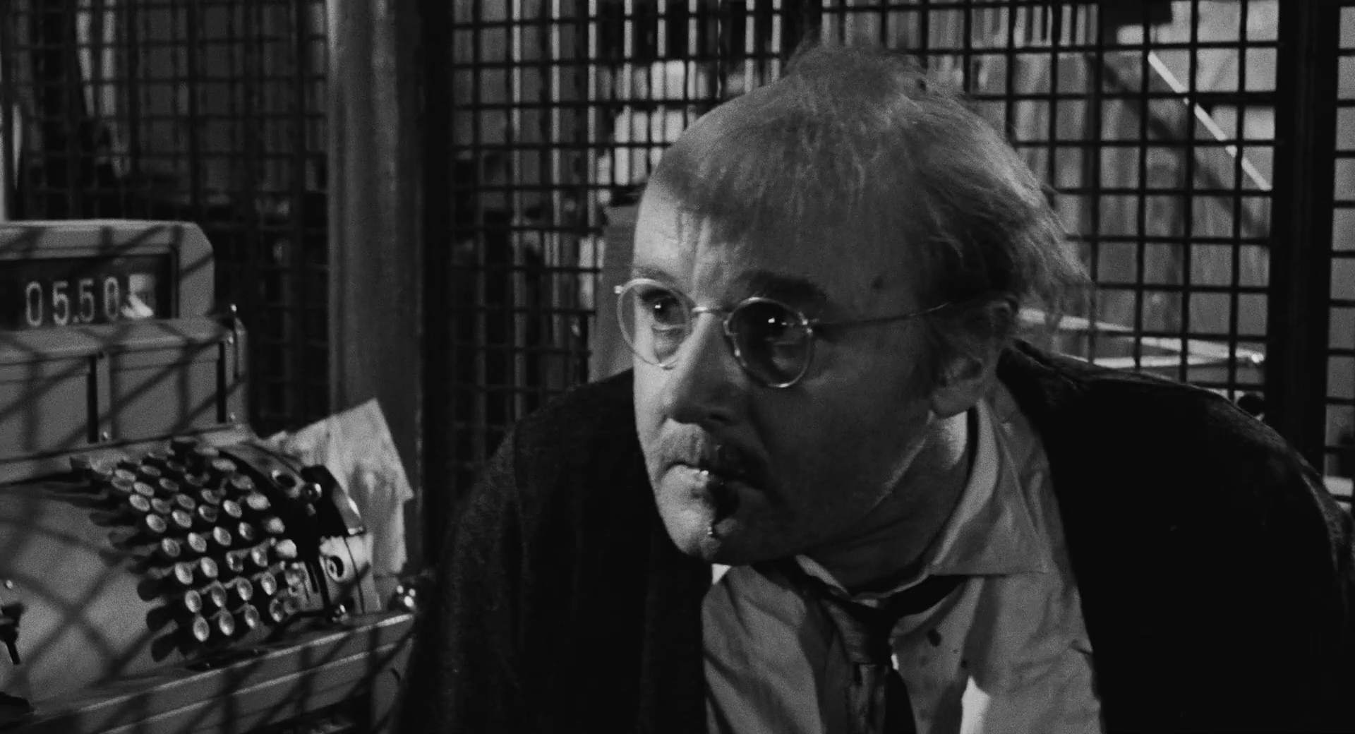 The Pawnbroker film screenshot of trailer of 1964 film.